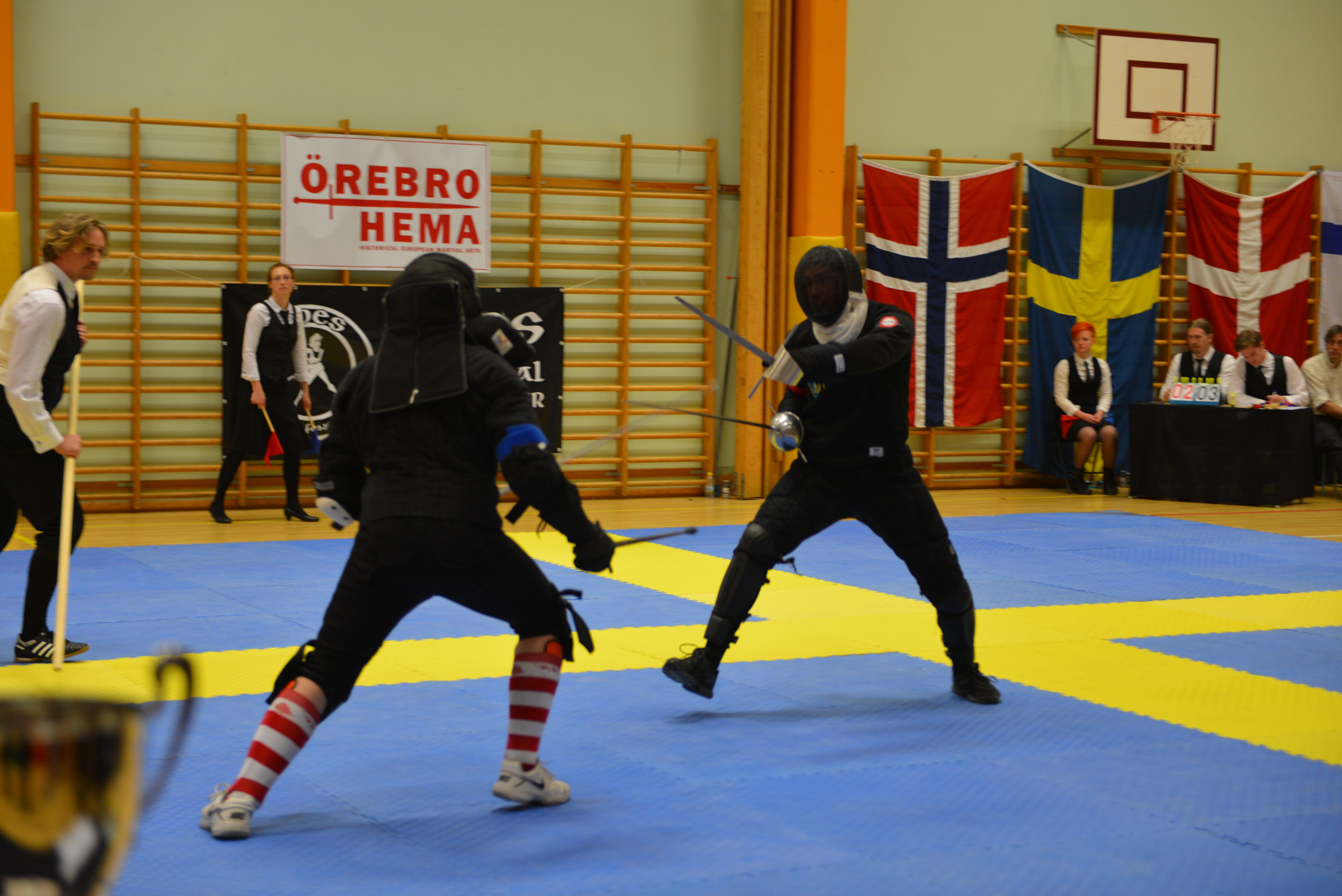 Image from Örebro Open 2015 hema tournament in Kristinehamn, Sweden.